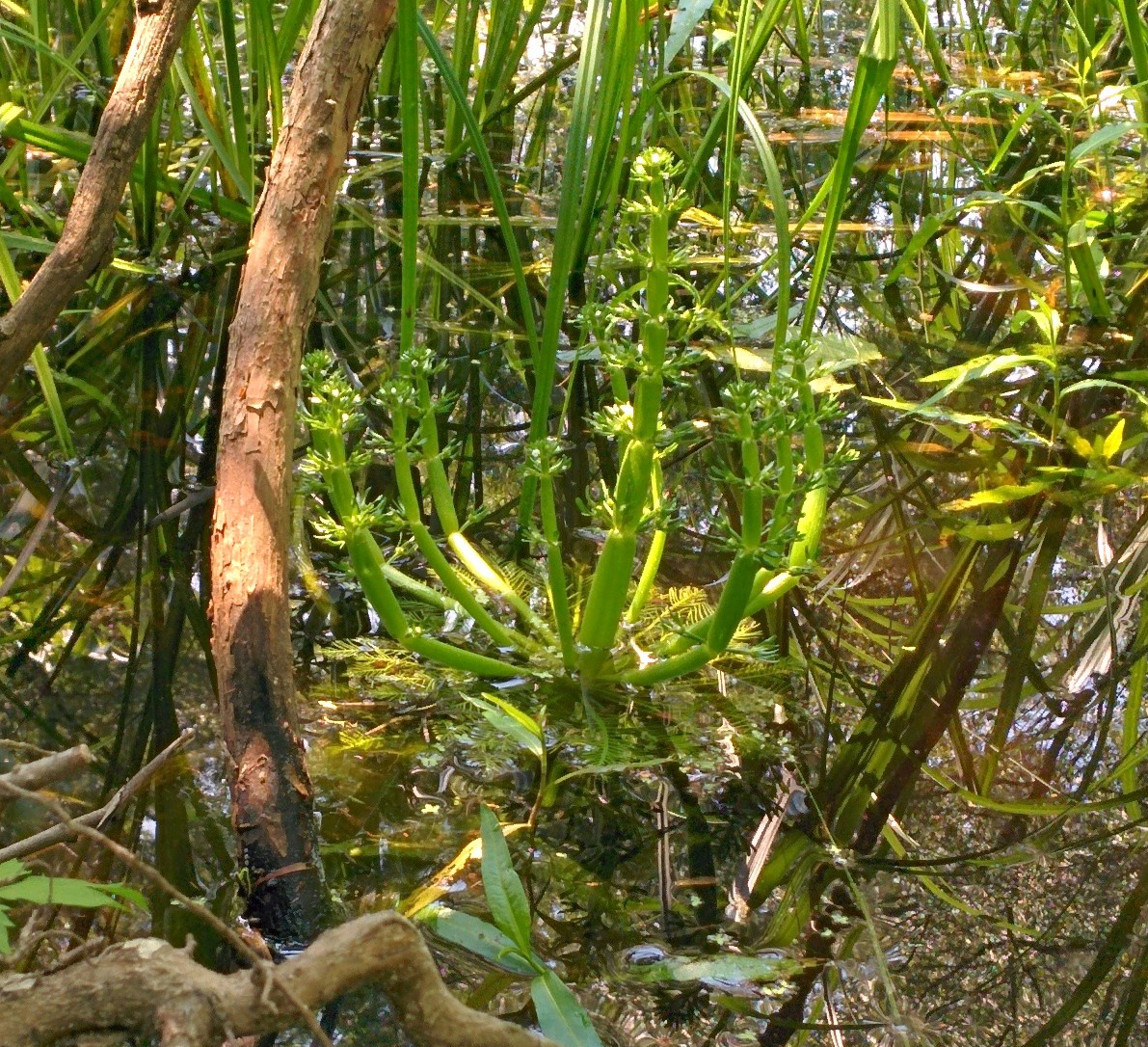 Hottonia inflata in a Carolina Bay, and in flower. Image taken in late May.